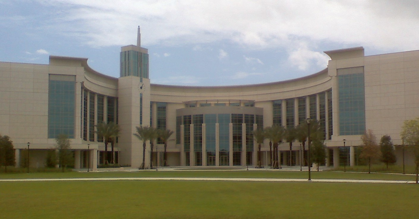 UCF College of Medicine, Lake Nona campus, June 2010